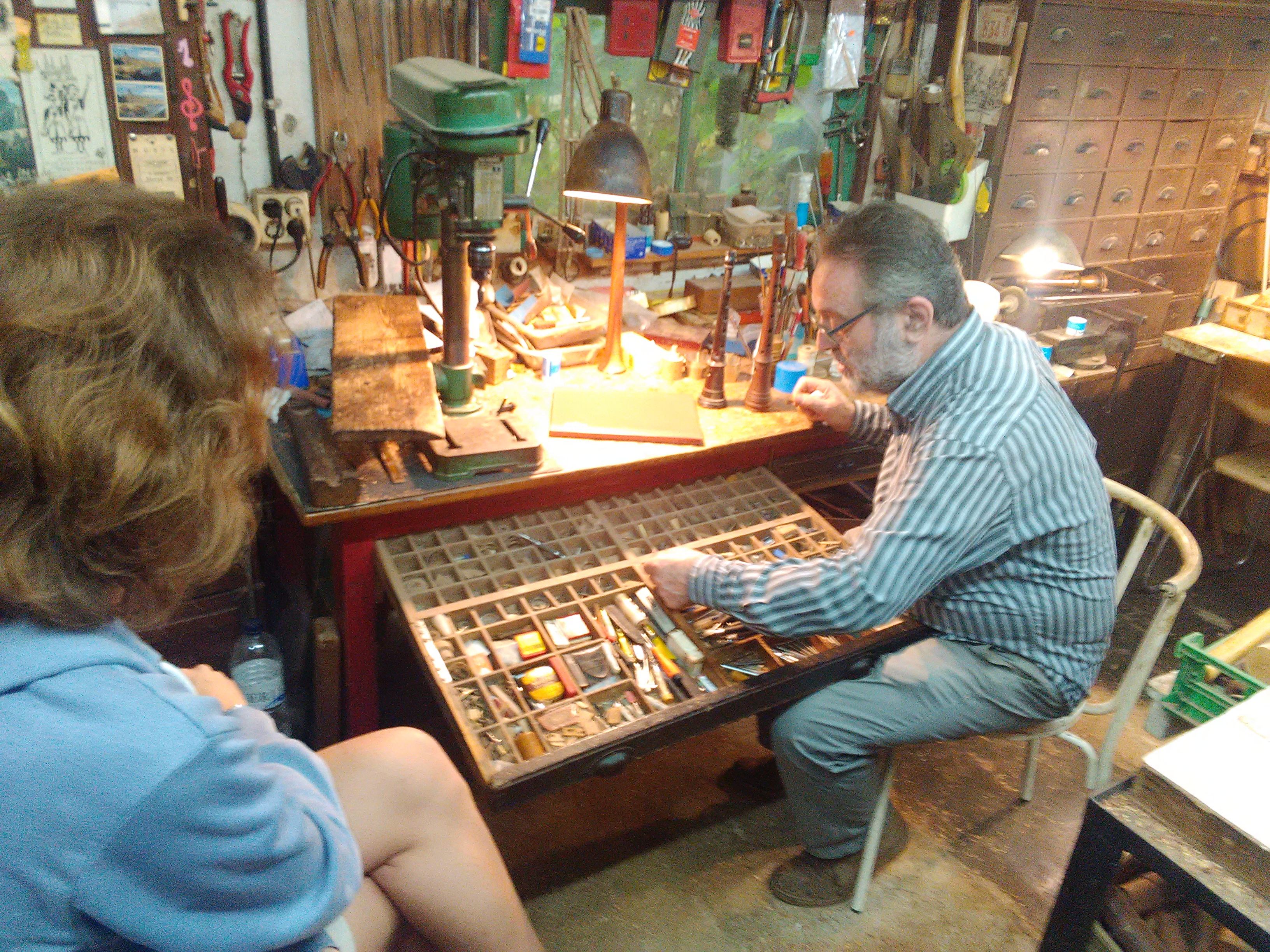 Luthier Xavier Orriols at his workshop.